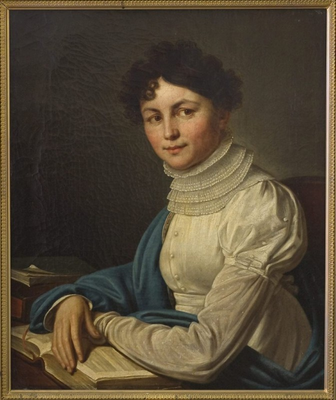 Russian poetess Anna Petrovna Bunina. М.П. Вишневецкий (1801-1871) с оригинала А.Г. Варнека 1825 г. Портрет А.П. Буниной. 1830-е. Холст, масло. 72 х 62. Поступление: из Правления Академии наук в 1923 г. Учетный номер: И. 2815 ИРЛИ (Пушкинский Дом) РАН Одну из стен музея бывшего Пушкинского Дома, ныне Института Русской Литературы, в соседстве с портретами кн. Дашковой, Шишкова, Державина, Карамзина и др., украшает портрет миловидной средних дет брюнетки с выразительным лицом и вьющимися волосами, в костюме первой четверти XIX в., сидящей в непринужденной позе у стола с книгами (копия работы известного художника-портретиста того времени Варнека, ок. 1820 г.). Портрет этот с давних пор украшал залы Академии Наук, как унаследованный с другими в коллекции русских писателей и ученых от Российской Академии, приобретшей и приобщившей его к собранию портретов своих членов, хотя изображенная de jure и не состояла при жизни в их числе (она была почетным членом "Беседы любителей русского слова"). Женщина, удостоившаяся этой чести, была известная в свое время писательница и первая, составившая себе достаточно громкое имя, русская поэтесса - Анна Петровна Бунина.